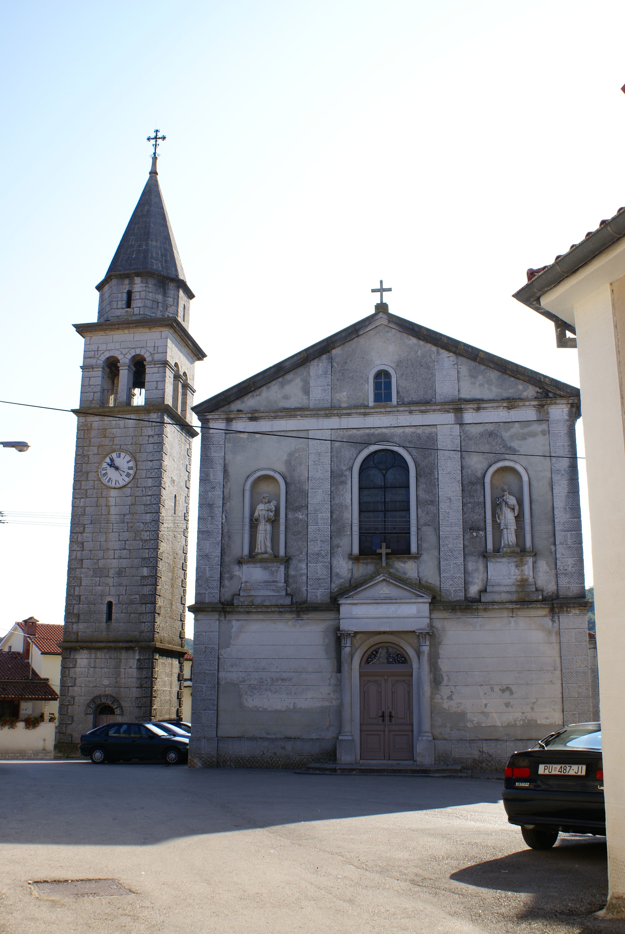 Church of St. Martin in Beram